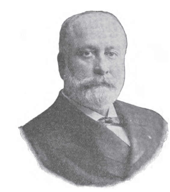 an Ohio politician named William B. Shattuc